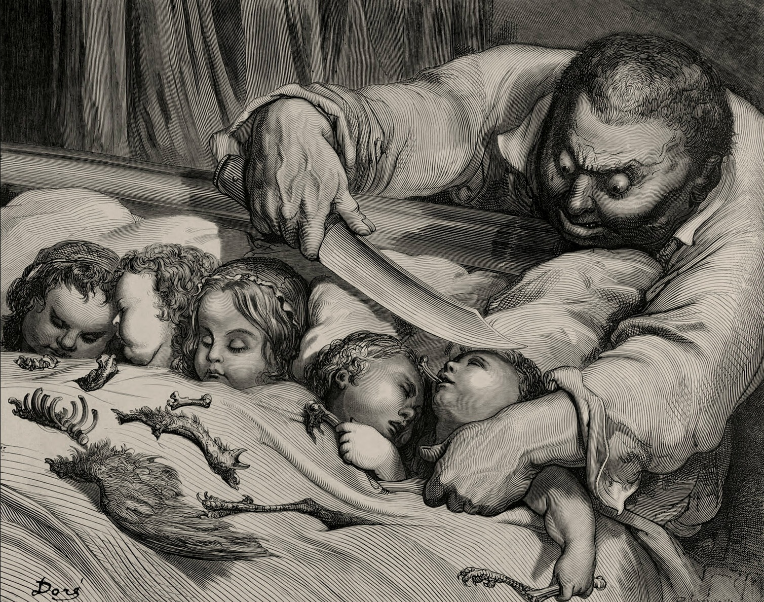 Gustave Doré illustration from the tale, "Le Petit Poucet" ("The Little Thumb"; English title: "Hop-o'-My-Thumb") from Les Contes de Perrault by Charles Perrault